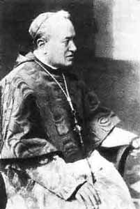 Andrea Carlo Ferrari Cardinal Archbishop of Milan